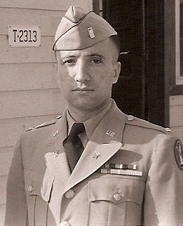 1LT Eddie Willner, U.S. Army, 1956 Family photo